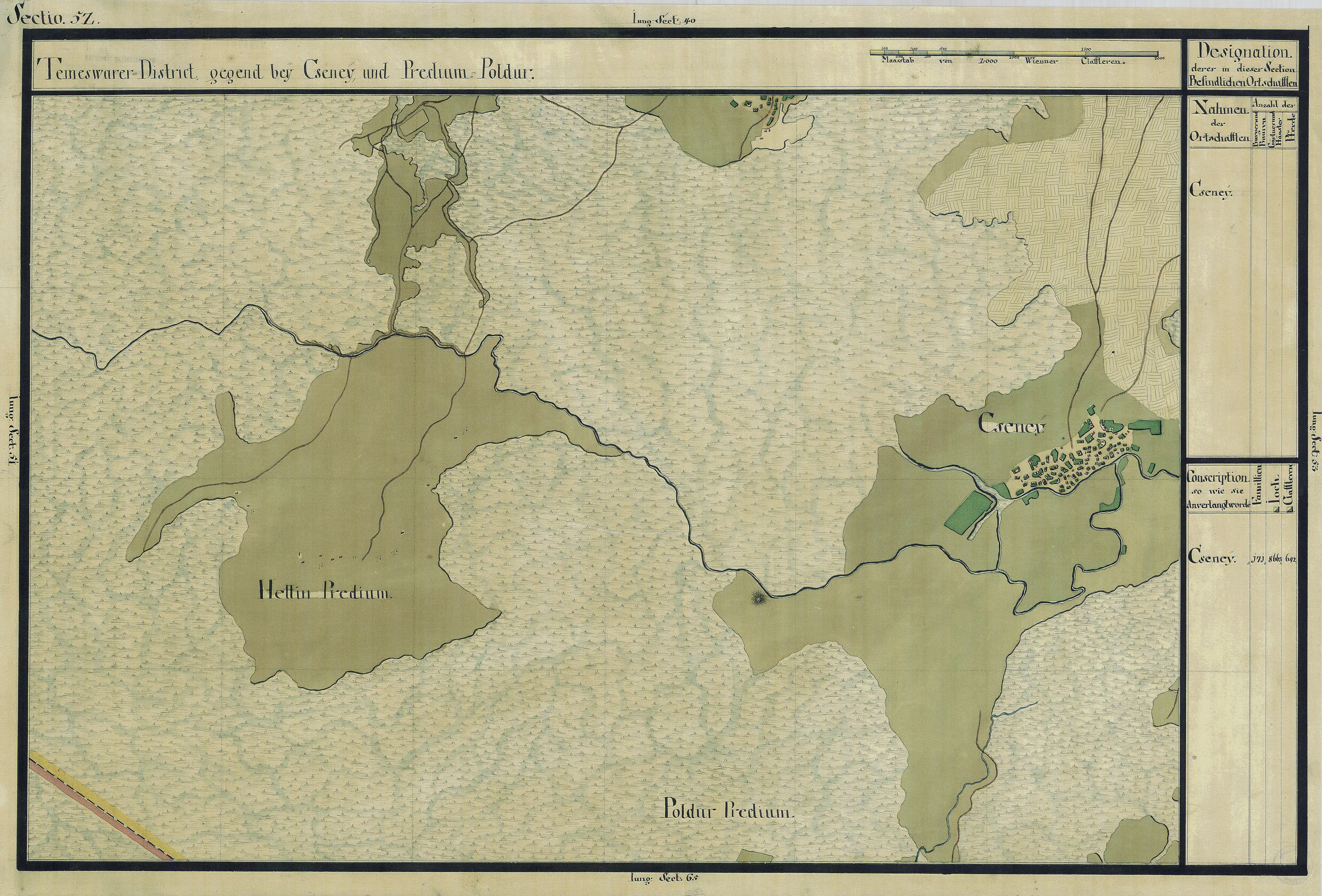 The Banat region in the cadastral maps: Josephinische Landesaufnahme, 1769-72. Josephinische Landaufnahme pg052